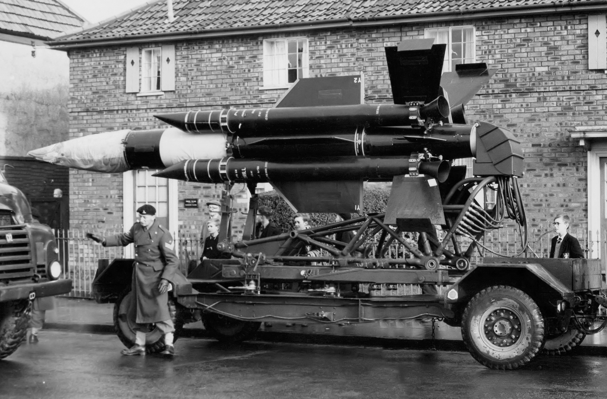 English Electric Thunderbird surface-to-air missile parked at Filton, Bristol, England, following a tow vehicle breakdown.